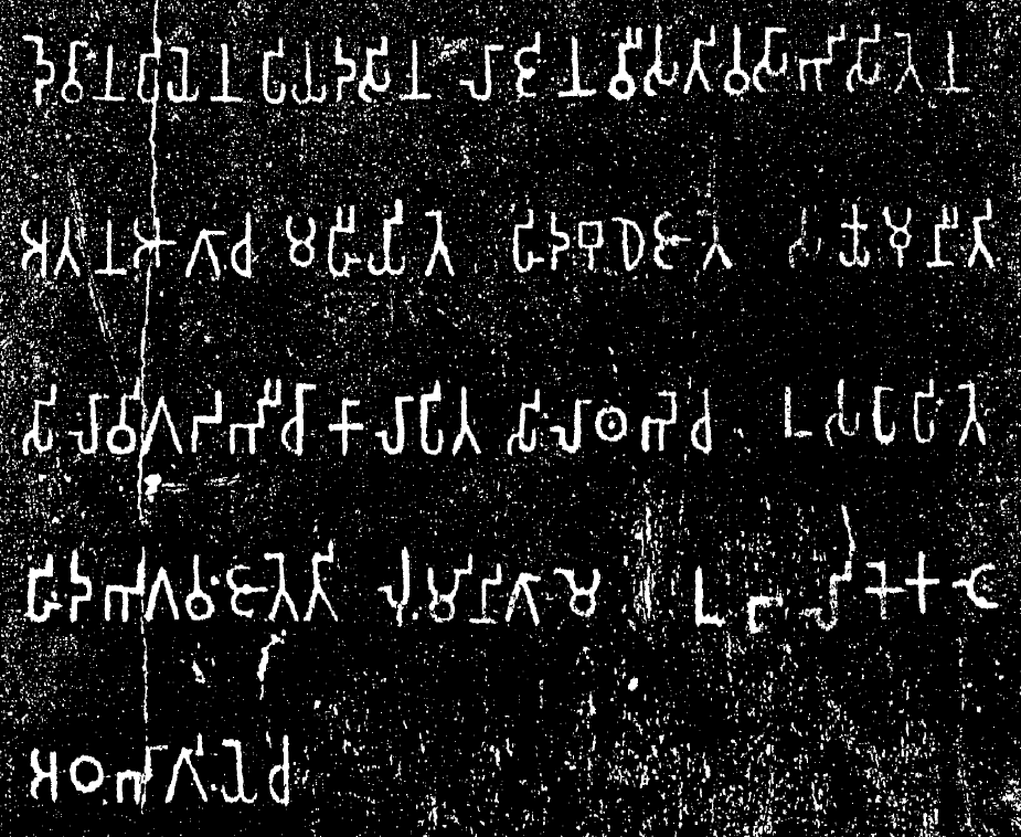 Paderia Pillar Edict of Aśoka.